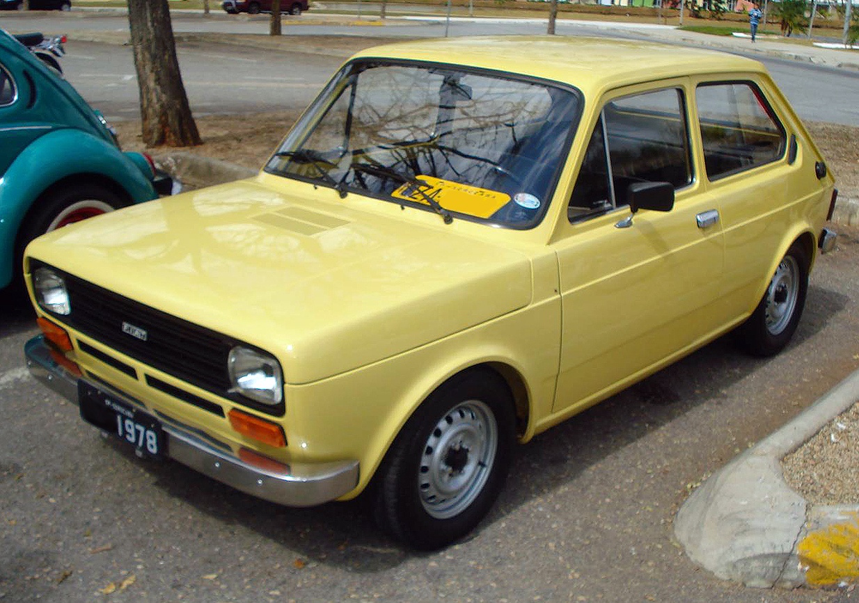 1978 Fiat 147, built in Brazil